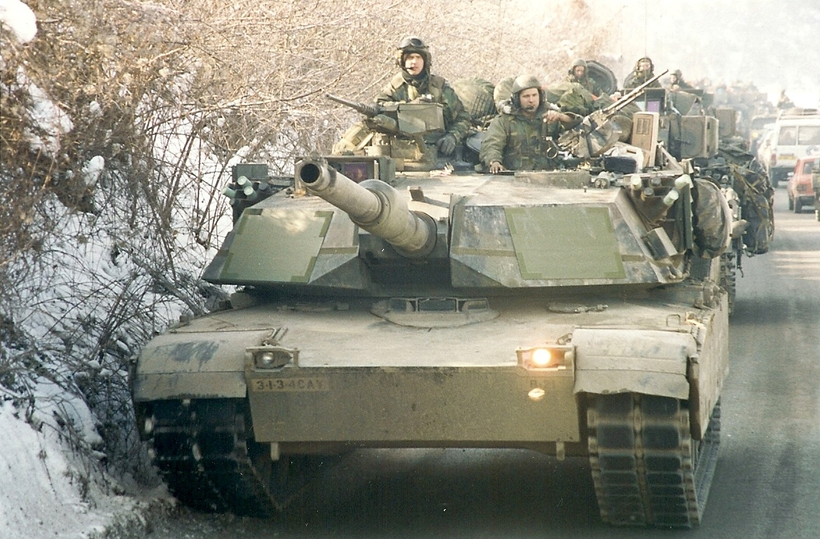 Norwegian IFOR soldieres meeting with the first US IFOR soldiers from the 1. US Armored Division between the Sava Rver and Tuzla in January 1996 . Norske IFOR sodater møter de første amerikanske soldatene som ankommer Bosnia, mellon Sava og Tuzla i januar 1996.